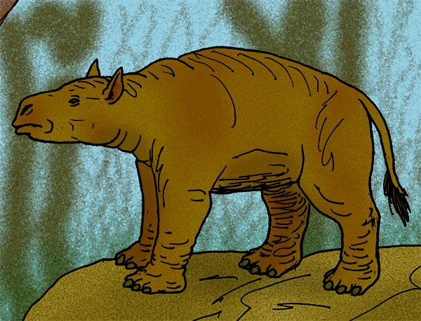 Reconstruction of the meridungulate Carodnia vieirai, of Paleocene Argentina